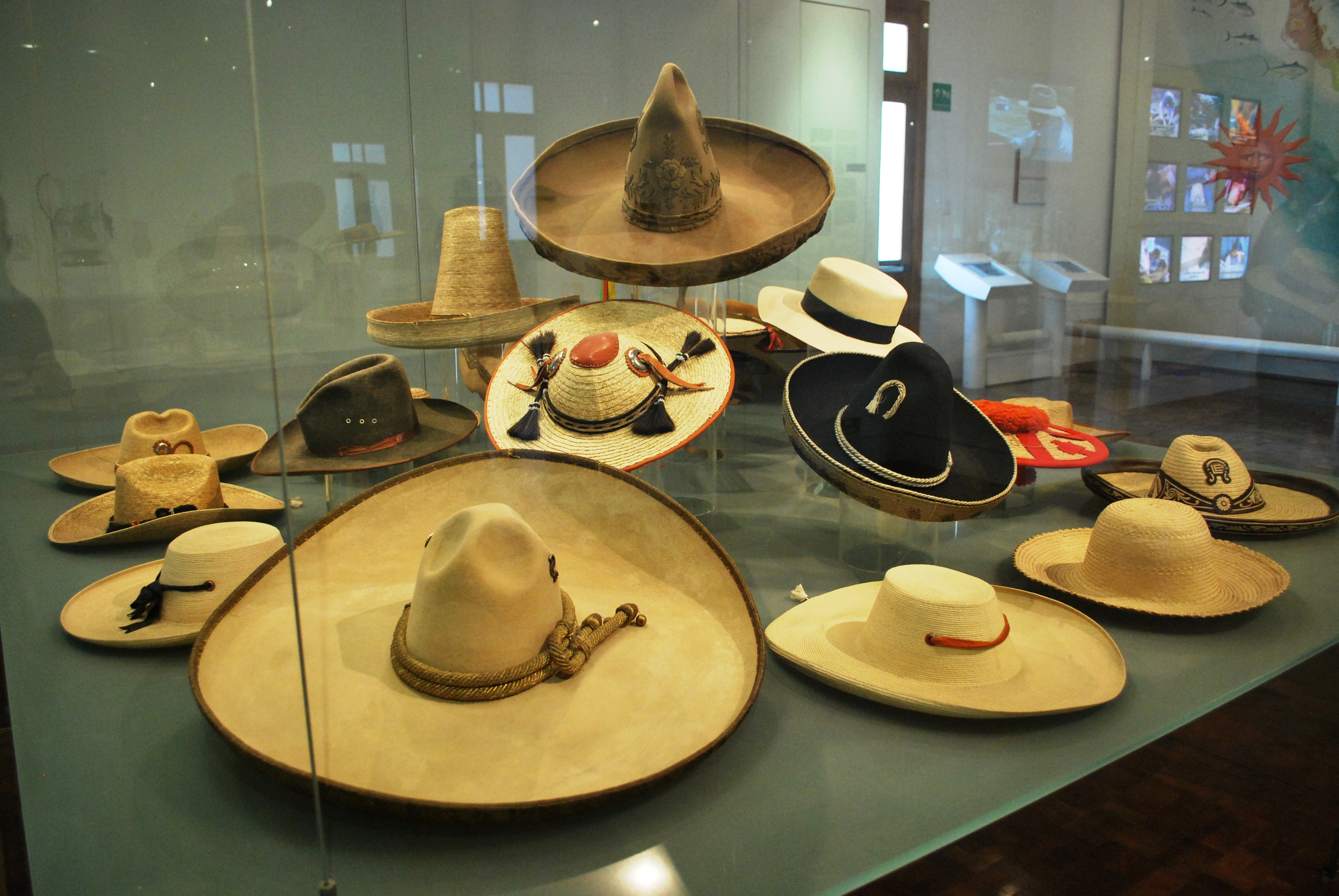 Display of charro hats at the Museum of Artes Populares in Mexico City